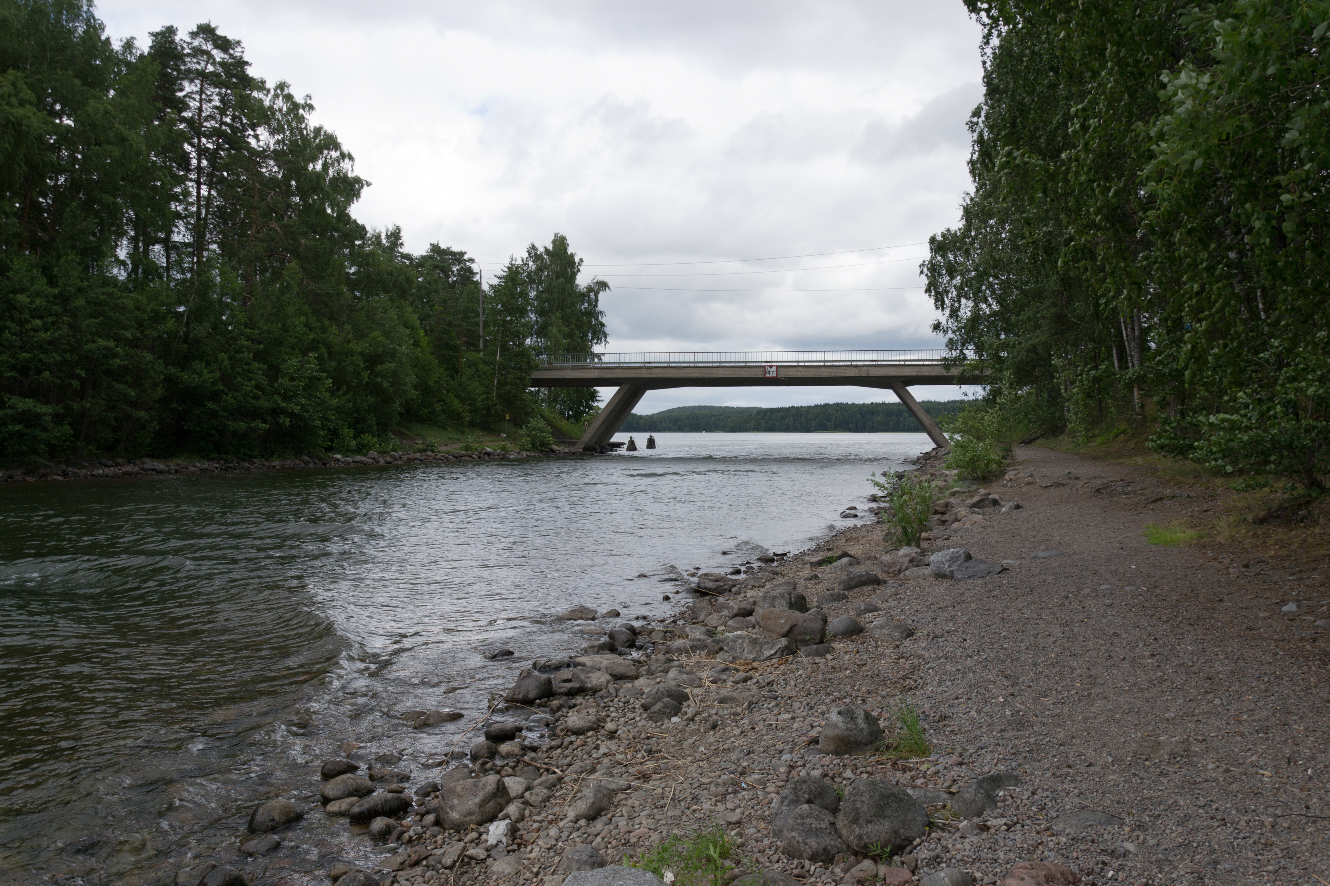 Canal of Kaivanto in Kangasala